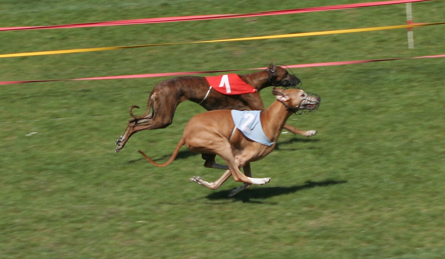 The dog's racing in Bytom - Szombierki, Poland.